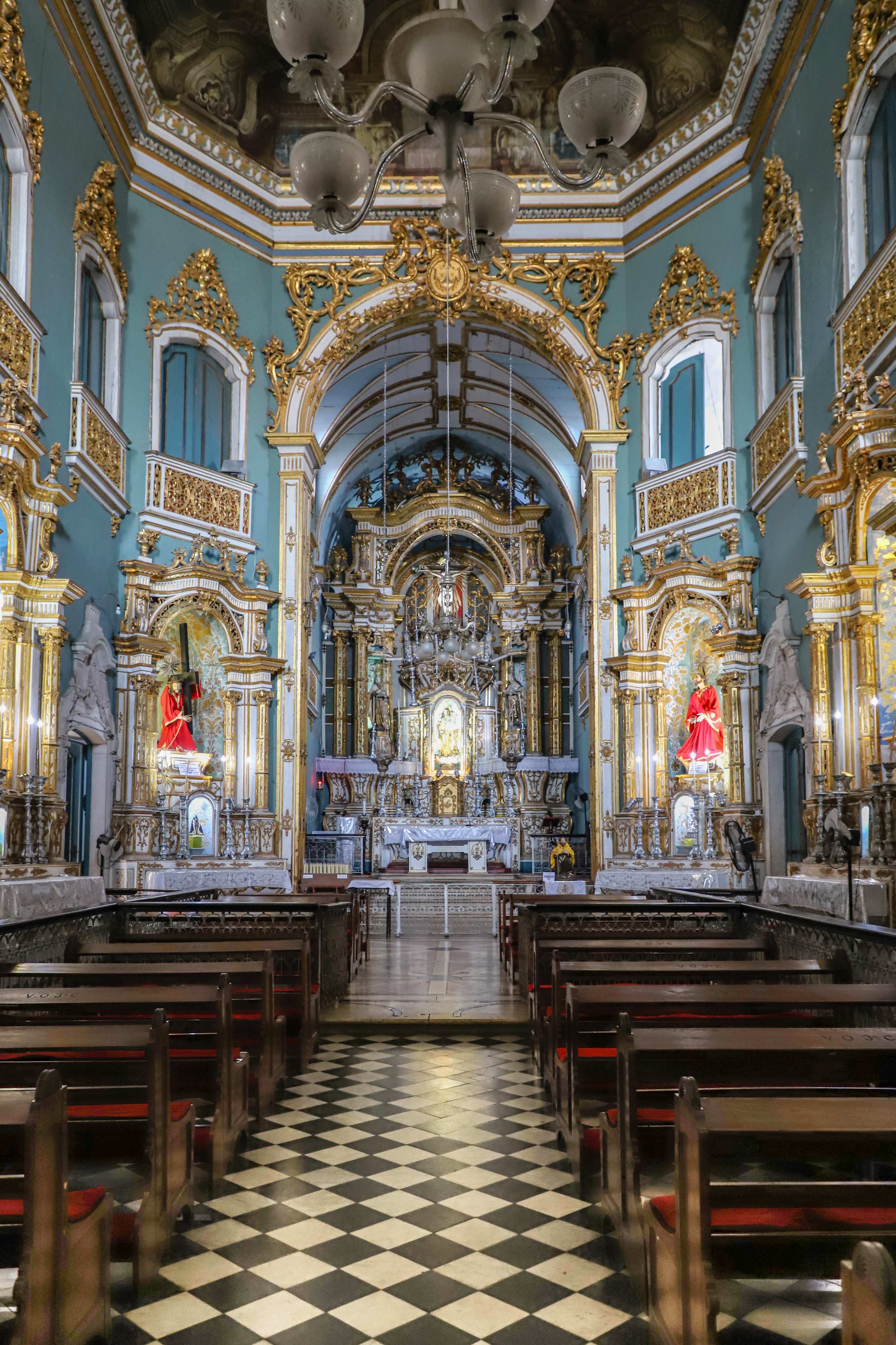 View of nave and chancel, Igreja da Ordem Terceira do Carmo, Salvador, Bahia, Brazil.